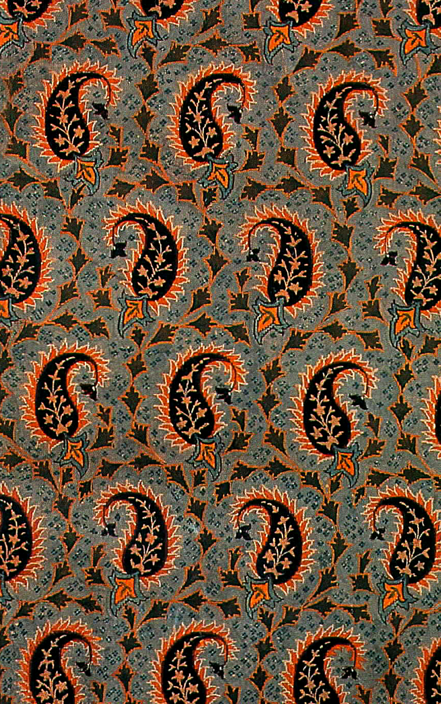 Persian Silk Brocade. Persian Textile (The Golden Yarns of Zari - Brocade). Silk Brocade with Golden Thread (Golabetoon). Texture Type: Lower Warp (Brocade Atlasi). Draw Loom. Pattern and Design: Paisley Left and Right (Bote Jeghe), With Main Repeating Motif (Persian Paisley). Brocade weaver: Master Abdollah Salami. 1939 A.D. Brocade Designer (Pattern Designer): Master Reza Vafa Kashani. 1939 A.D. Pahlavi Dynasty. Beaux Industries (Sanaye-e Mostazrafeh) . brocade and velvet workshop.